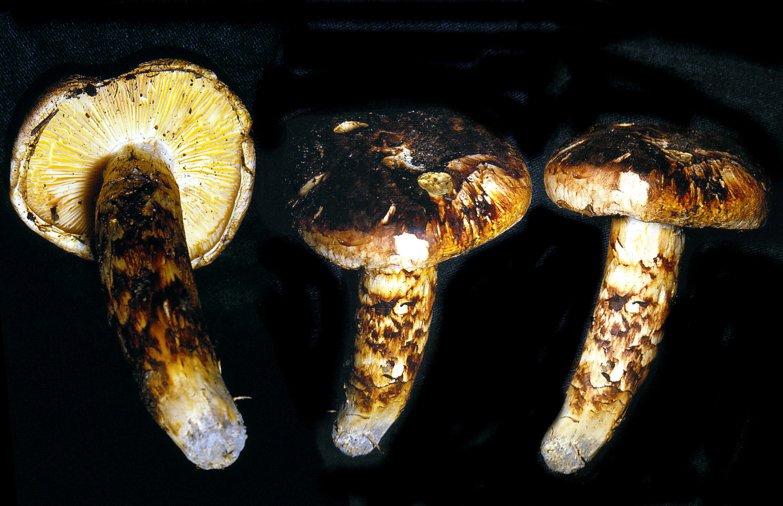 Tricholoma caligatum Toulon (South Provence) France. Strong aromatic smell. Taste bitter